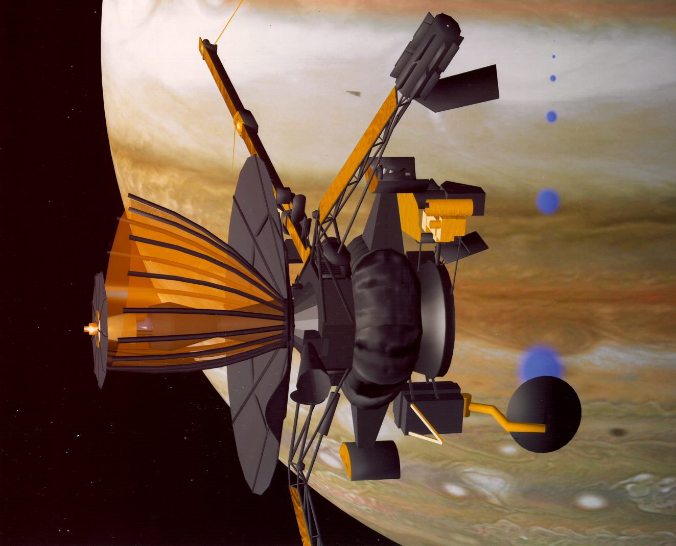 As it arrived at Jupiter on December 7, 1995, NASA's Galileo orbiter received a stream of data transmissions -- represented by the blue dots in this artist's depiction -- from the atmospheric probe that was descending through Jupiter's clouds. The orbiter had released the probe five months earlier. The wok-shaped probe sent information to the orbiter for 57.6 minutes as it dropped about 200 kilometers (125 miles) through the atmosphere, before succumbing to atmospheric pressure about 23 times greater than the average at Earth's sea level. The probe returned data about sunlight, heat flux, pressure, temperature, winds, lightning and atmospheric composition. About one hour after the end of the probe's transmissions, the orbiter fired its main engine to brake into orbit around Jupiter. Note: This illustration correctly shows the partially deployed main antenna.